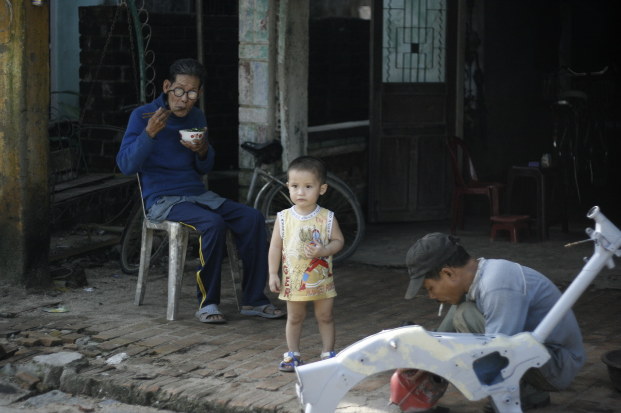 Quang Nam family, on the road from Da Nang to Dong Phu